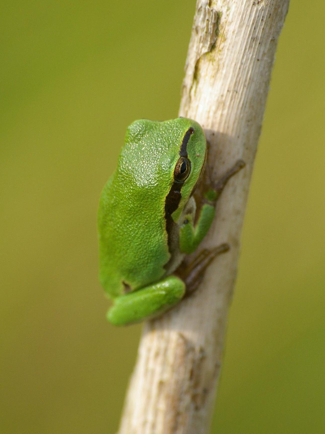 European Tree Frog (Hyla arborea); very young specimen (perhaps 4 weeks after metamorphosis, just around 12 mm long) sitting on a stalk.